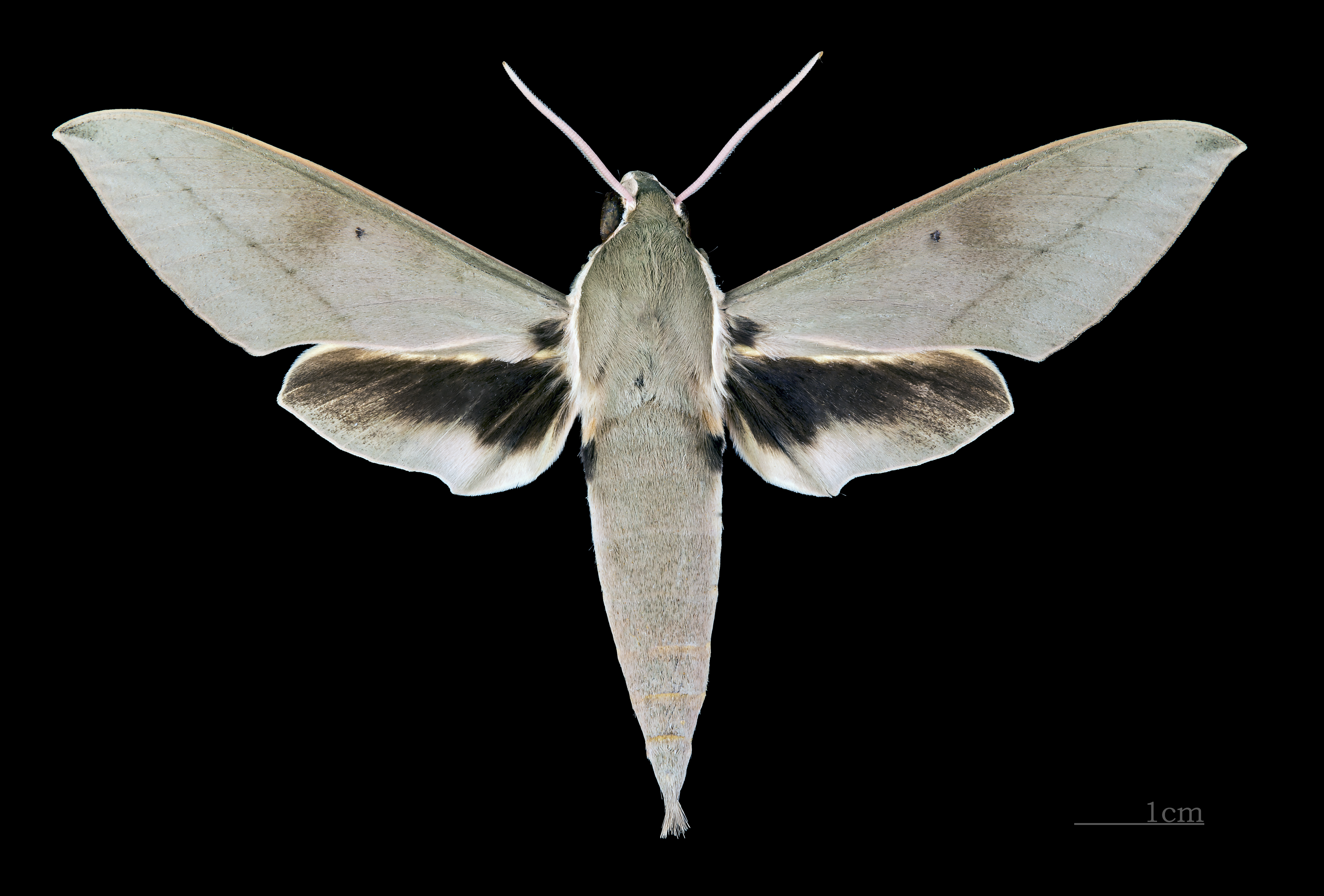 Theretra gnoma - Dorsal side Collection of the Mathematician Laurent Schwartz